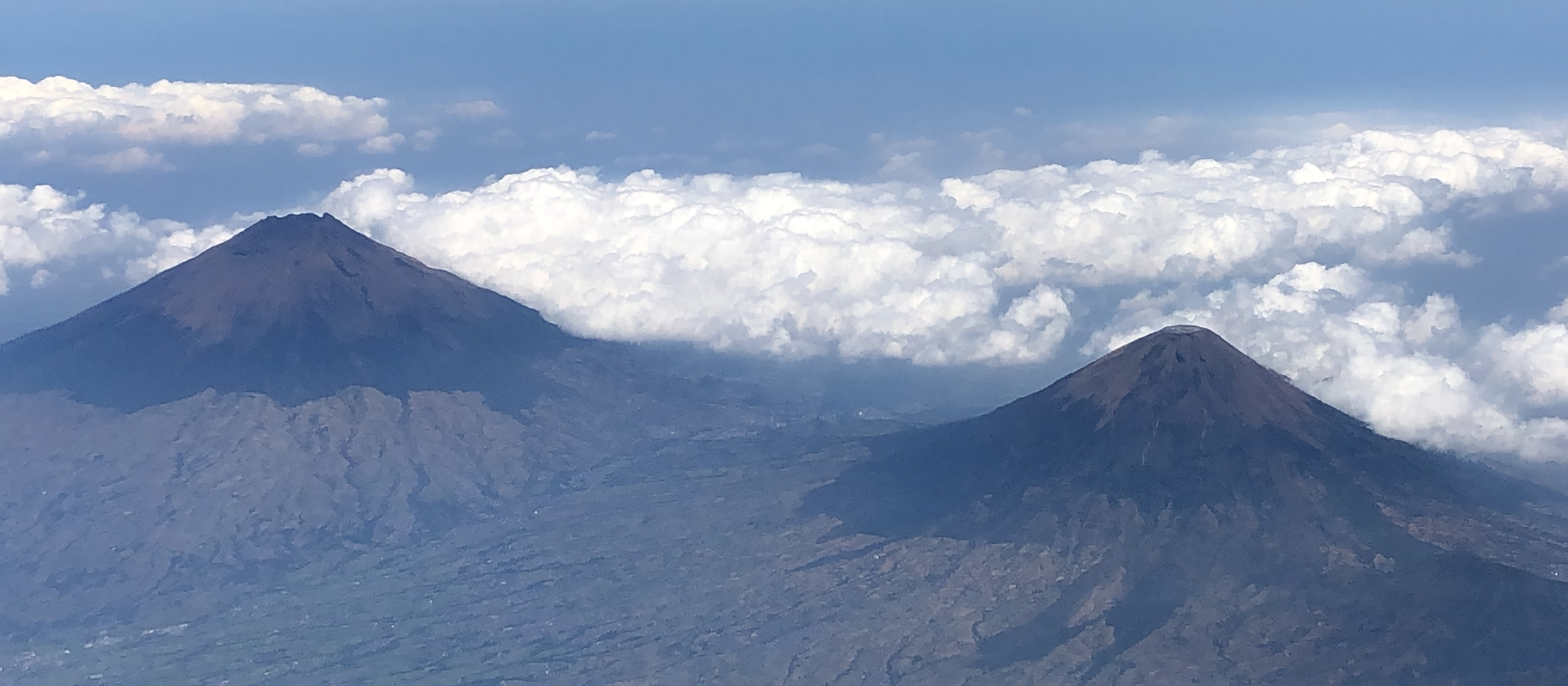 Mount Sumbing & Sindoro is Volcano Mountain from Central Java